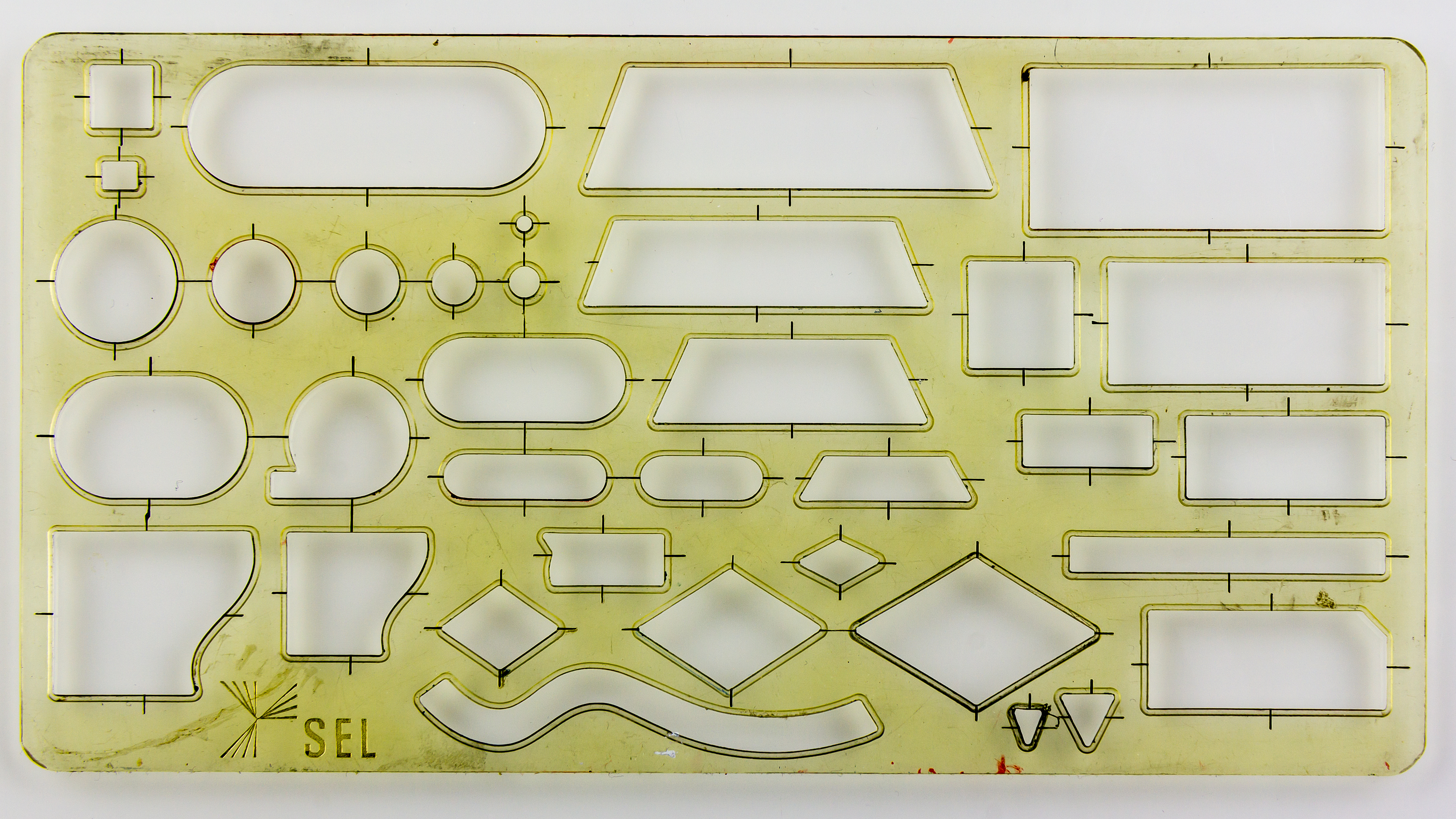 Flow Chart Stencil SEL